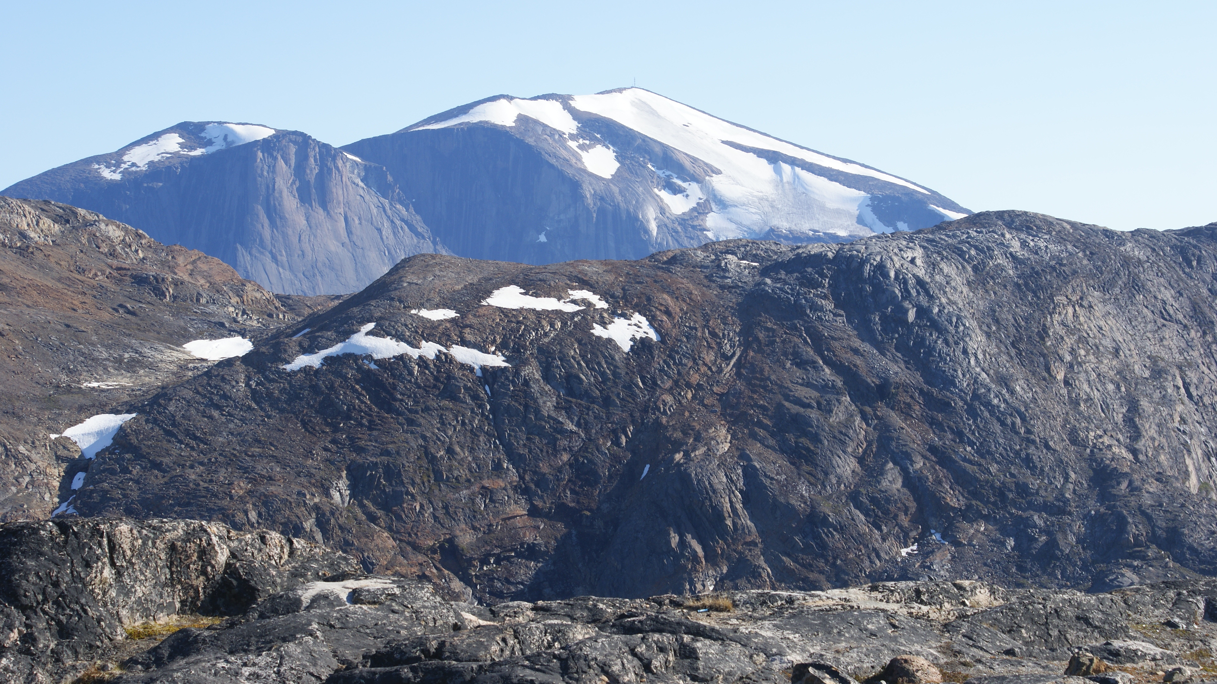 Sandersons Hope (1042m), the highest mountain on Qaarsorsuaq Island, Upernavik Archipelago, Greenland.